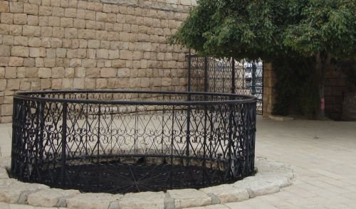 Image from the compound of Abraham Beer